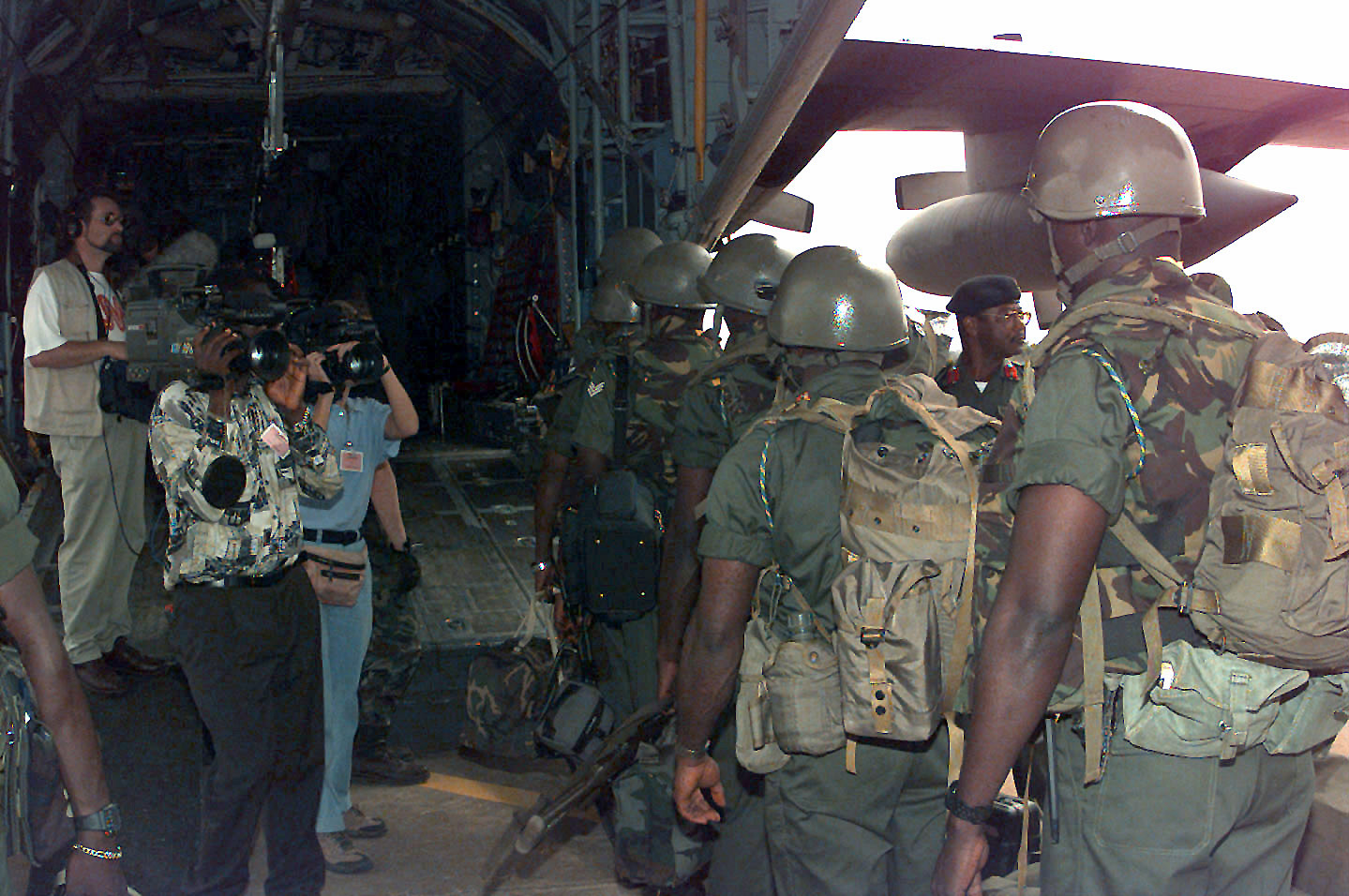 Economic Community Military Observation Group 13 (ECOMOG) Ghana Army Troops prepare to board a United States Air Force C-130E Hercules aircraft assigned to the 86th Airlift Wing out of Ramstein Air Base Germany, at Accra Airport in Ghana. The troops will be transported to Roberts International Airport in Liberia for a six month deployment in support of Operation ASSURED LIFT. ASSURED LIFT is a Joint Task Force (JTF) operation to provide airlift and other logistical support to West African states that are deploying more than 600 troops to Liberia as part of the region's ongoing peacekeeping mission. Most of the inbound West African forces will come from the country of Mali, with the Ivory Coast and Ghana also expected to contribute troops.